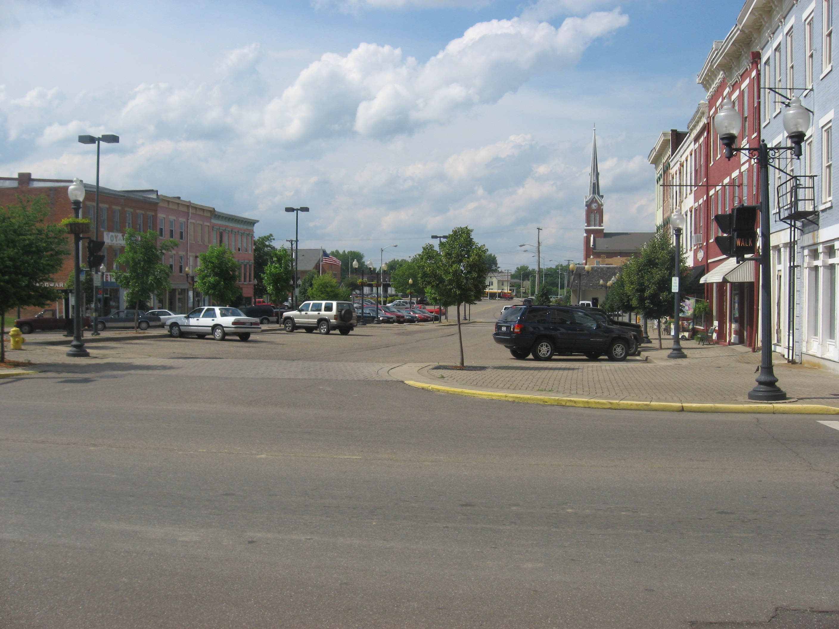 Market Street Plaza, Portsmouth, Ohio